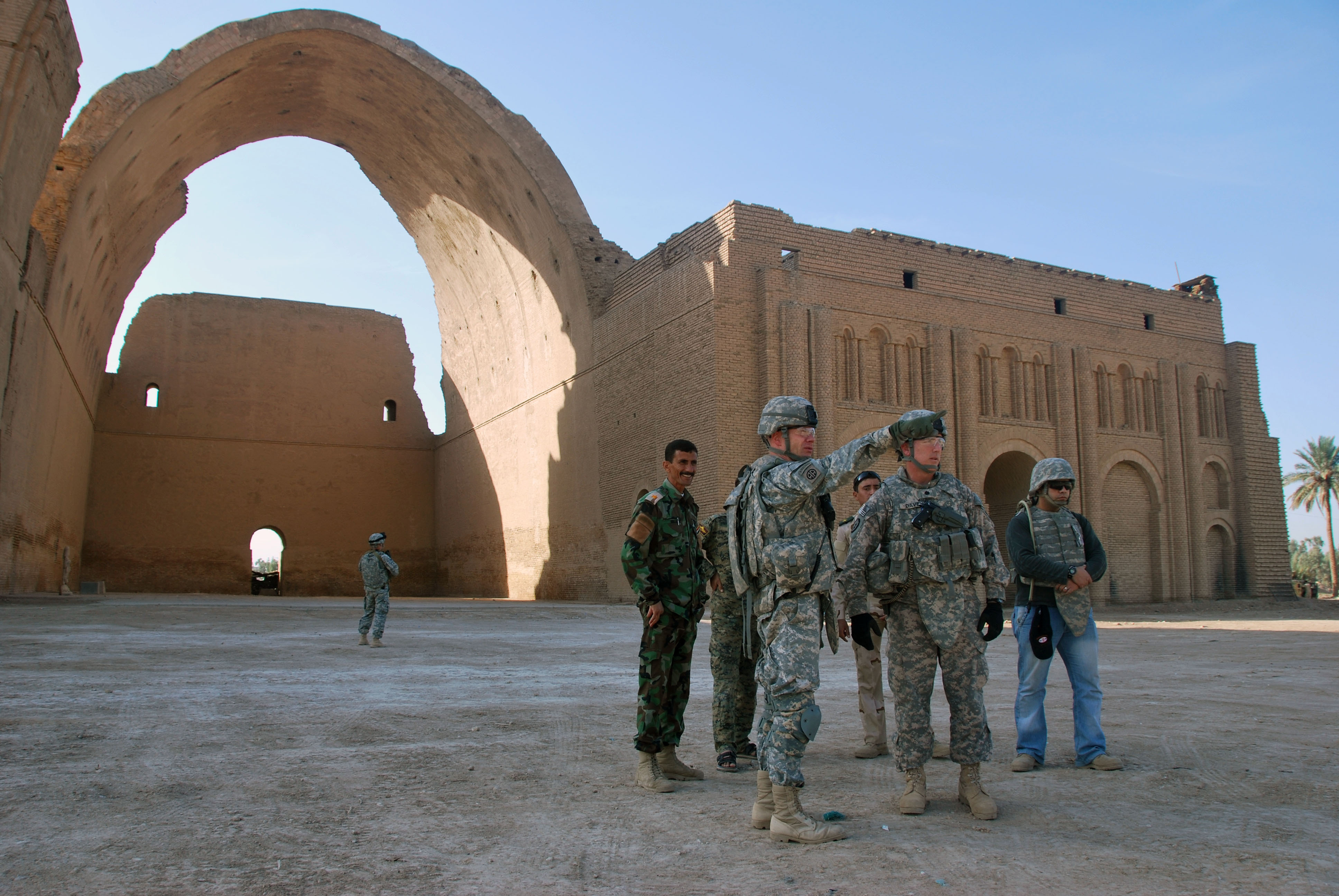 Lt. Col. Michael Shinners (left), of Alexandria, Va., the deputy commander of 3rd Brigade Combat Team, 82nd Airborne Division, shows Lt. Col. Michael Davey (right) the area surrounding the famous Arch of Ctesiphon during a site assessment mission, Nov. 8, in Salmon Pak, Iraq. Shinners and Davey, the deputy commander of the 2nd Brigade Combat Team, 10th Mountain Division, Multi-National Division – Baghdad, along with Iraqi officials, discussed plans to renovate the arch's surrounding area during the visit. Plans include building a fence, planting grass and trees, and repairing the existing structures in order to help restore national pride and bring tourism to Iraq.